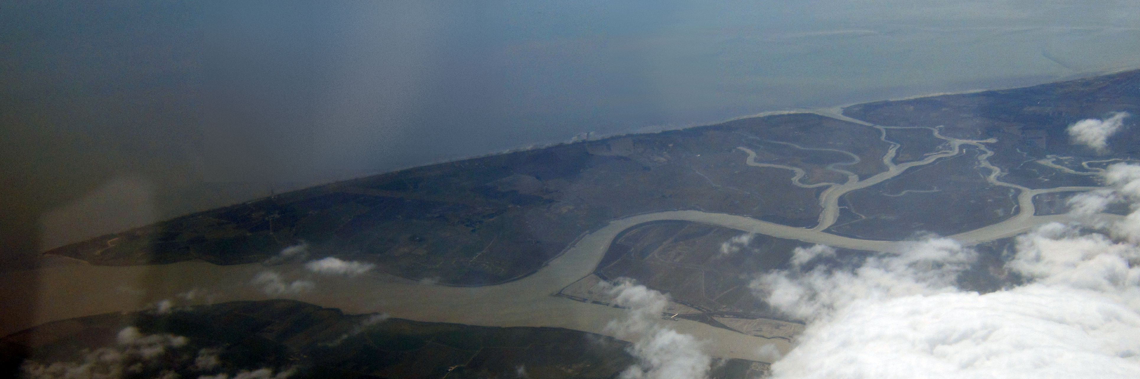 Foulness and Potton Islands aerial view